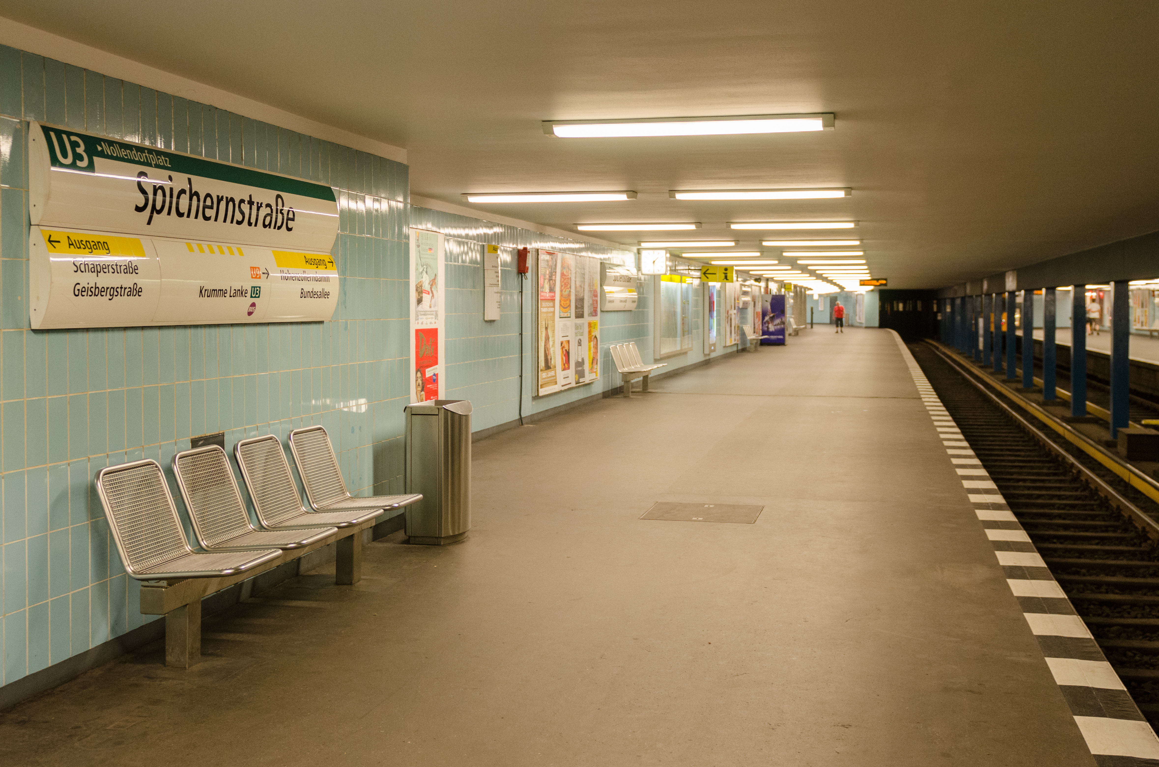 The Berlin subway station Spichernstraße in Berlin-Wilmersdorf